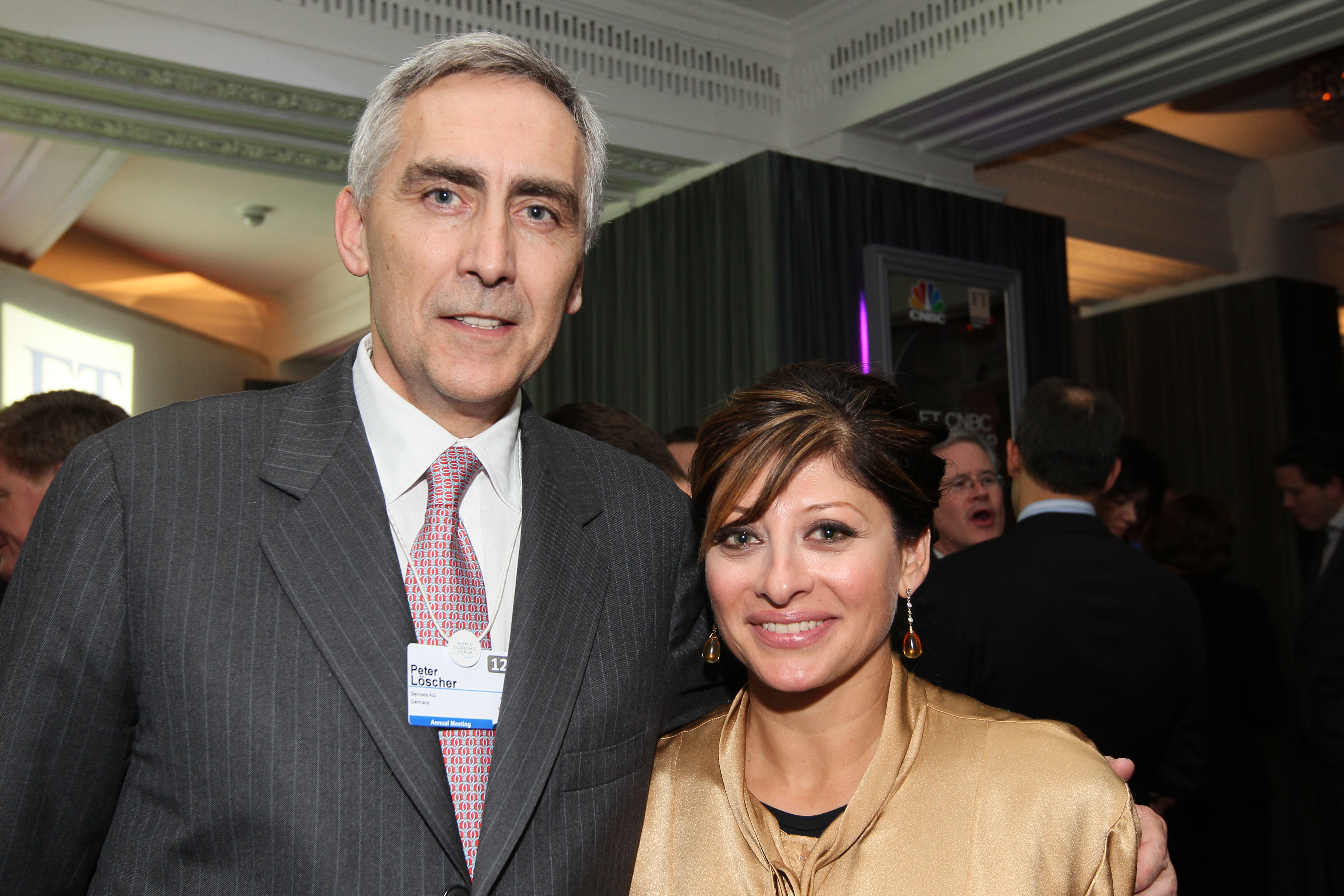 Peter Loscher, President and CEO, Siemens and Maria Bartiromo at the FT CNBC Davos Nightcap, 26th January 2012